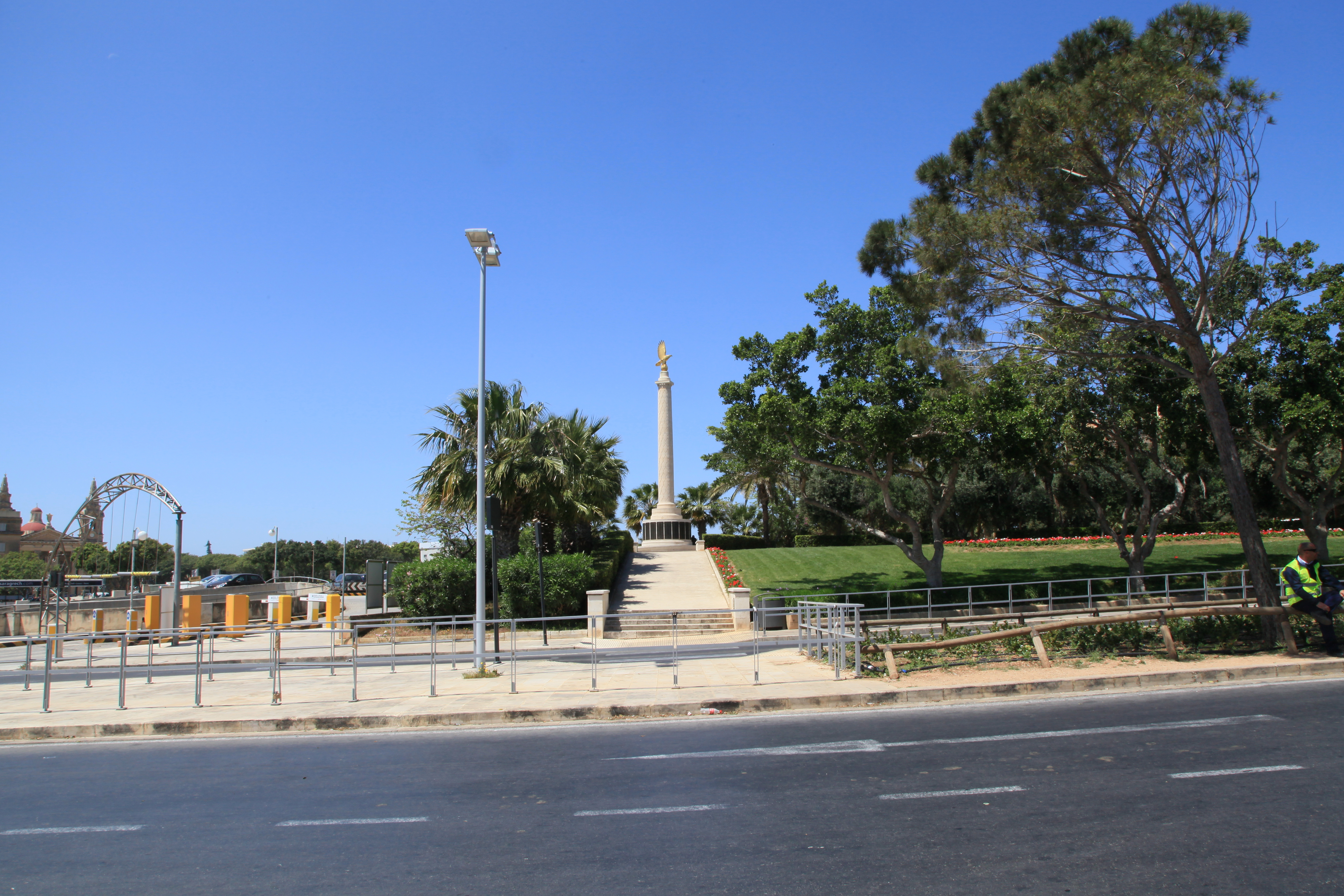 Malta Memorial at Vjal-Re Dwardu VII in Floriana (close to Vjal Nelson in Valletta), Malta